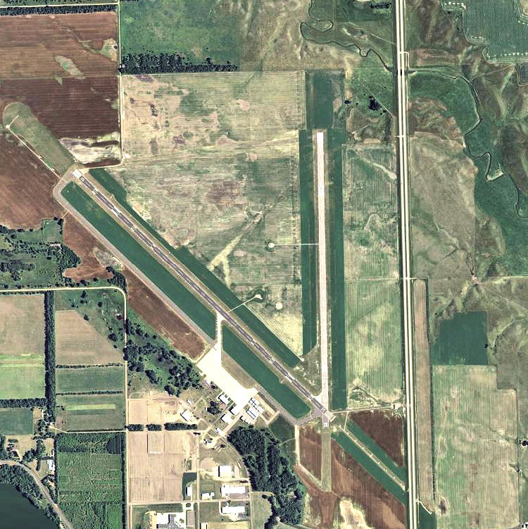 USGS digital orthophoto of Mitchell Municipal Airport in South Dakota